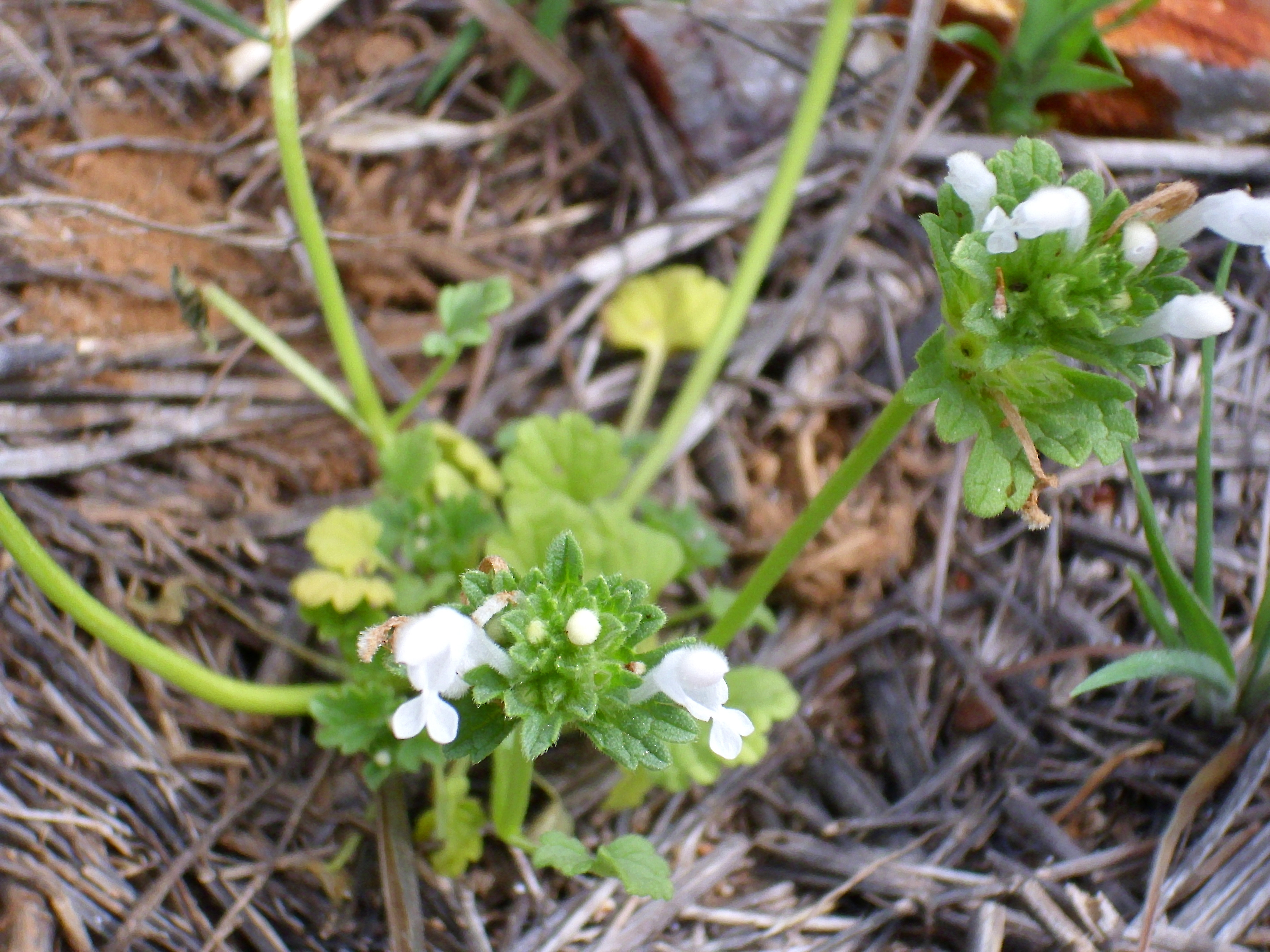 Lamium amplexicaule var. albiflorum habit, Dehesa Boyal de Puertollano, Spain